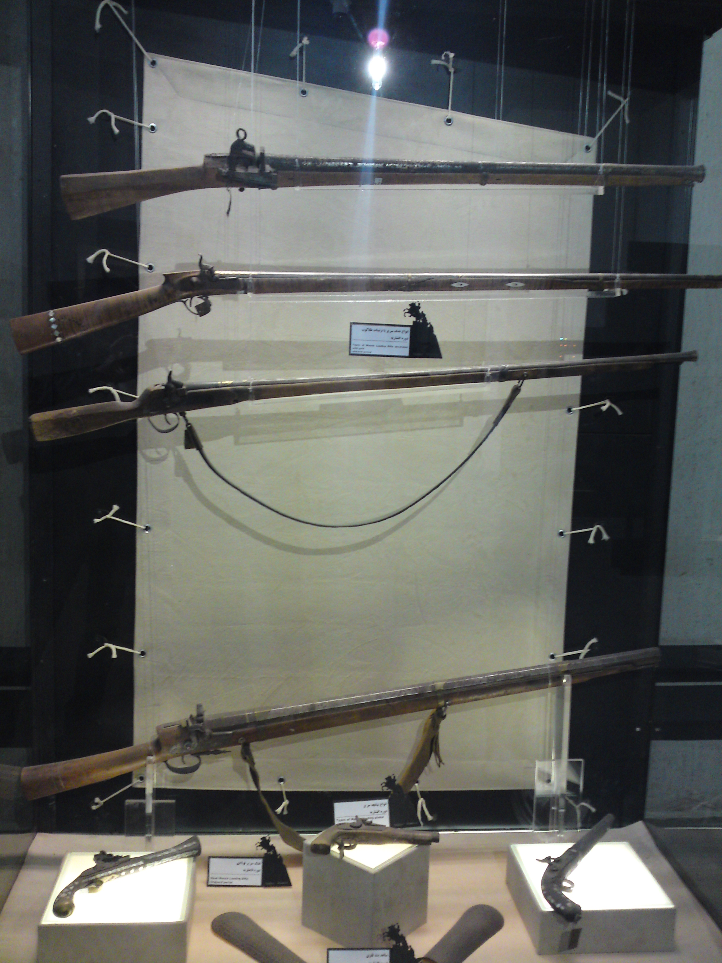 Firearm - Afsharid Empire